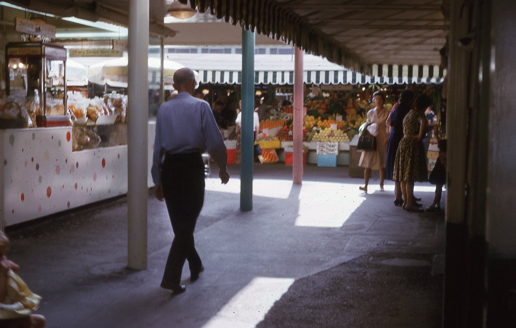 The Los Angeles Farmers Market in March 1962